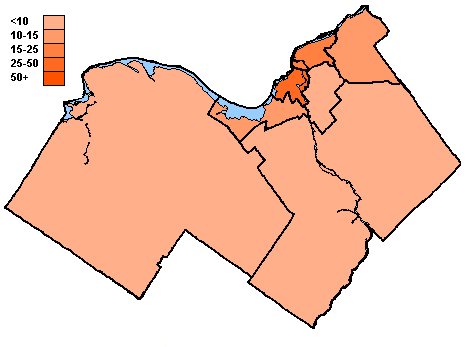 Summary: Map of Ottawa showing party support.